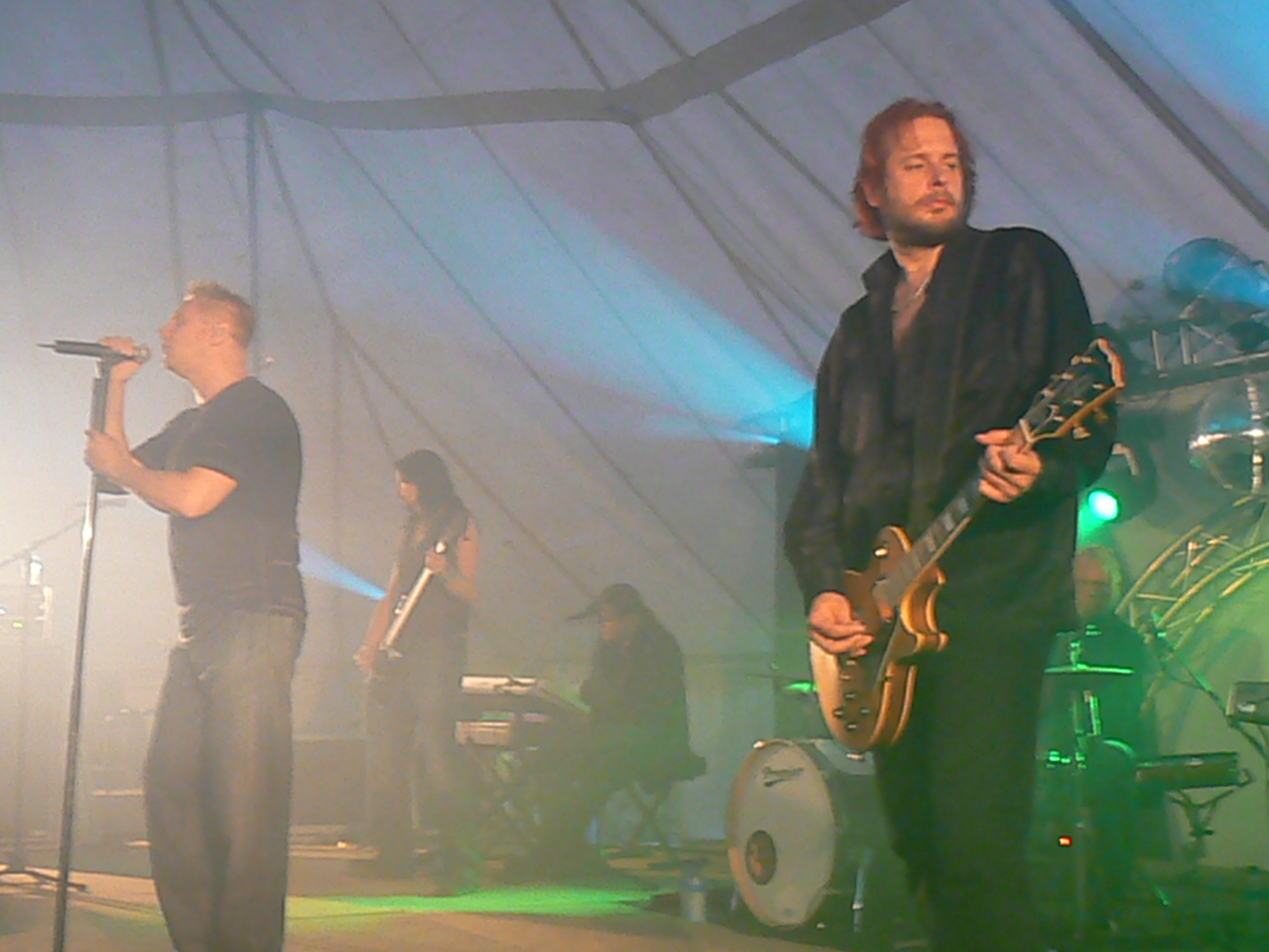 Rock band Yö performing on stage in Kouvola June 2007